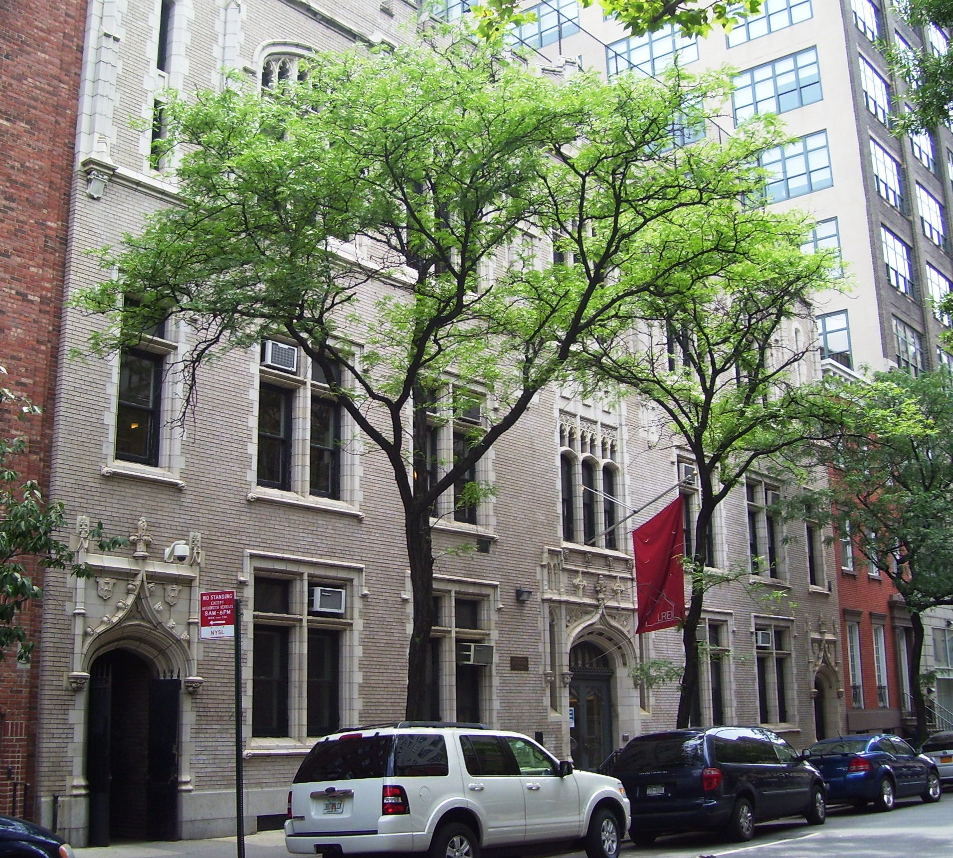 LREI's Elisabeth Irwin High School at 40 Charlton Street between Sixth Avenue and Varick Street in the South Village section of the Greenwich Village neighborhood of Manhattan, New York City, was built c.1900. It is located within the Charlton - King - Vandam Historic District. (Sources: "NYCLPC Charlton - King - Vandam Designation Report" and NYC GIS map)